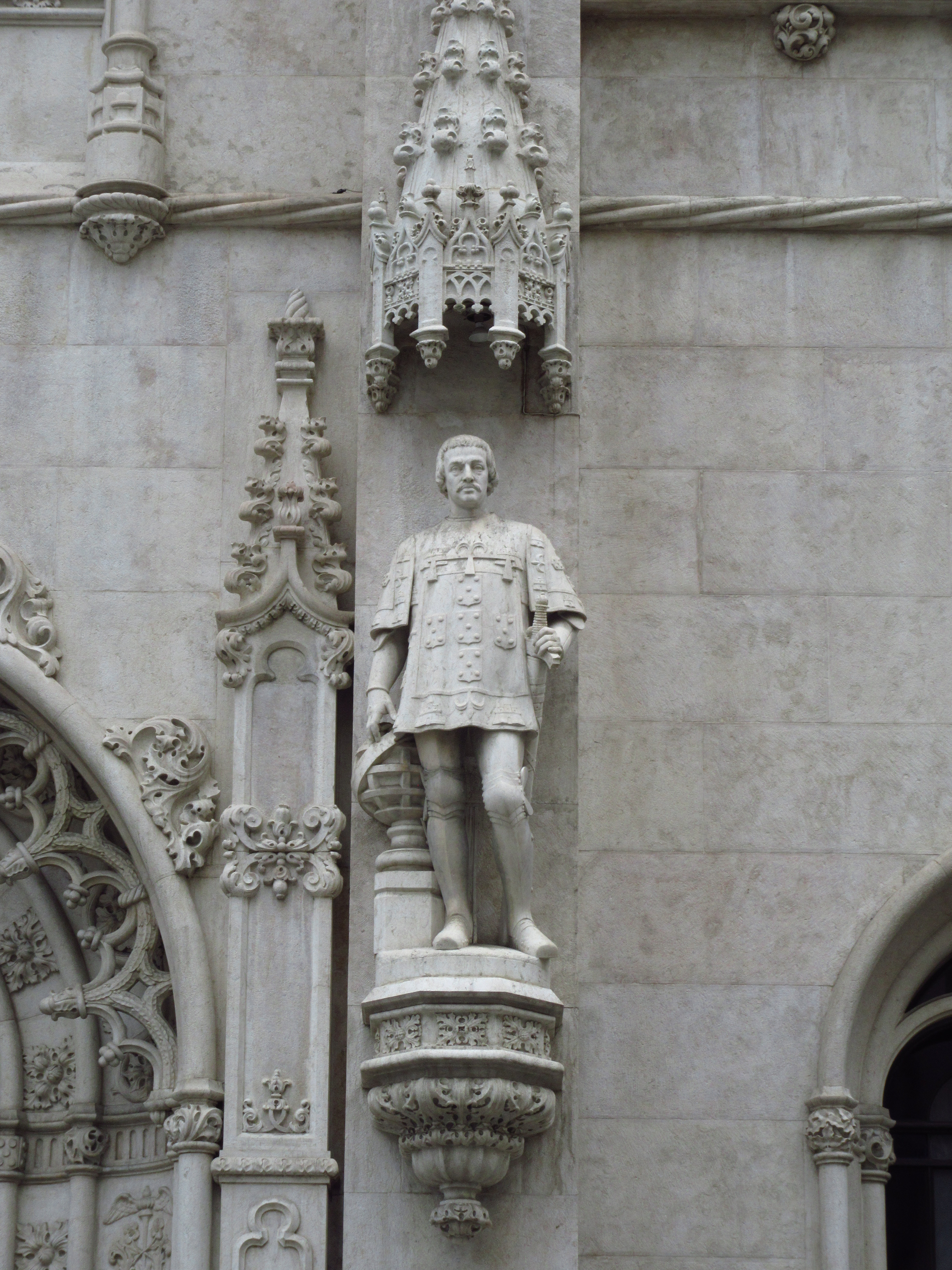 2018 Rio de Janeiro